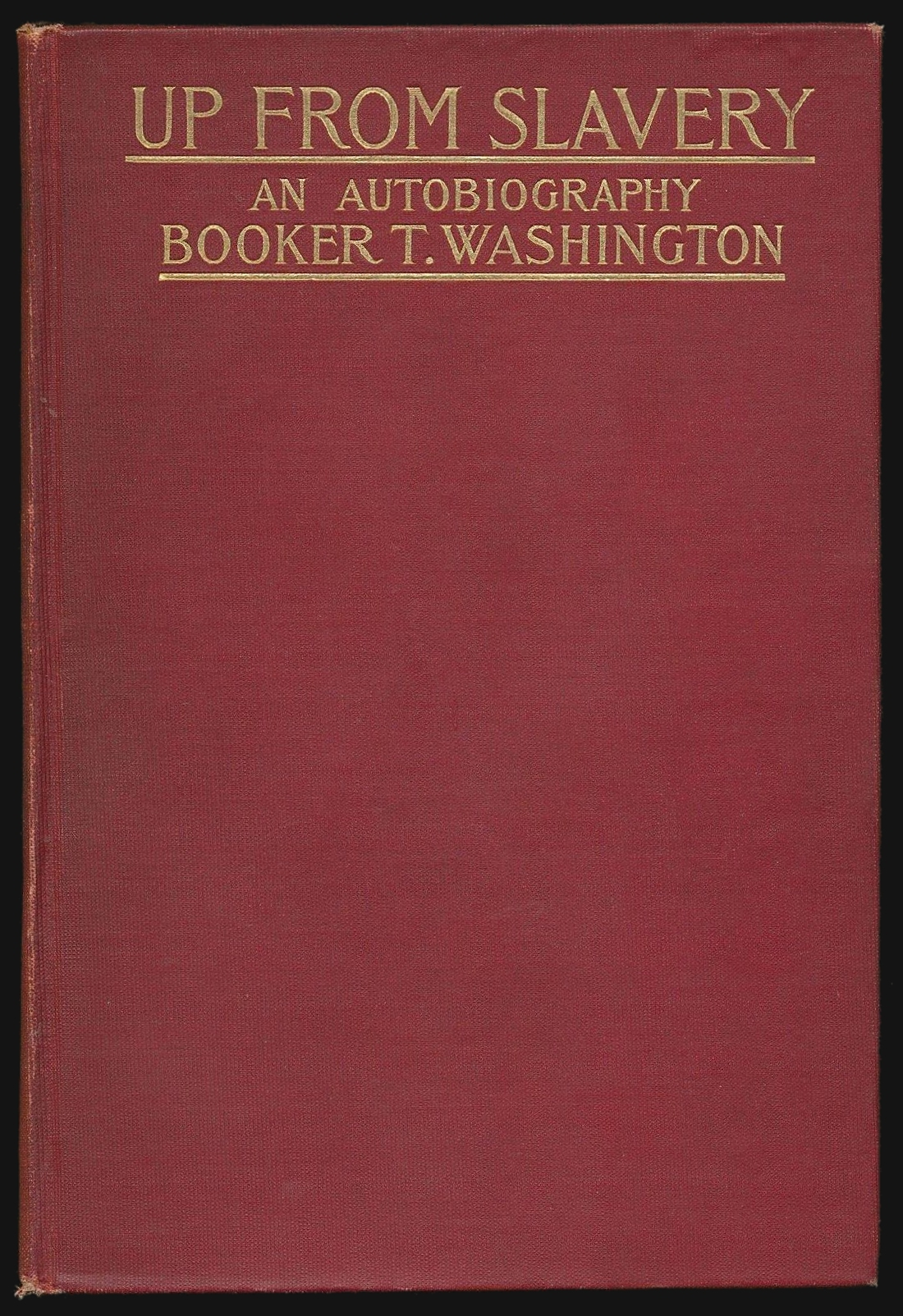 Cover of the first edition of Up from Slavery, the autobiography of Booker T. Washington.